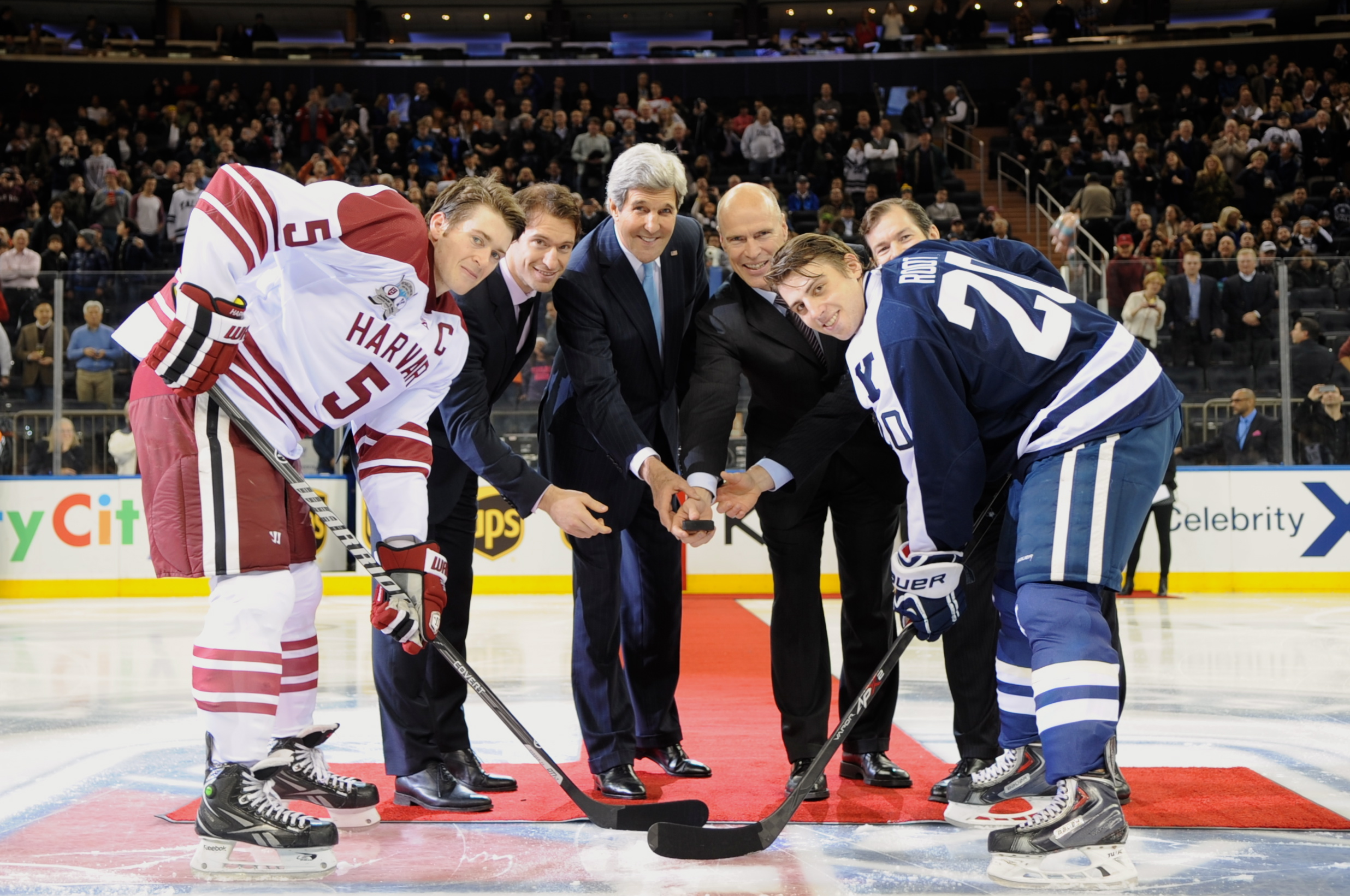 U.S. Secretary of State John Kerry joins the captains of the Harvard and Yale hockey teams, along with current New York Rangers player Dominic Moore and retired players Mark Messier and Mike Richter, for the ceremonial puck drop before the two rival university teams played at Madison Square Garden in New York, NY, on January 11, 2014. [State Department photo/ Public Domain]